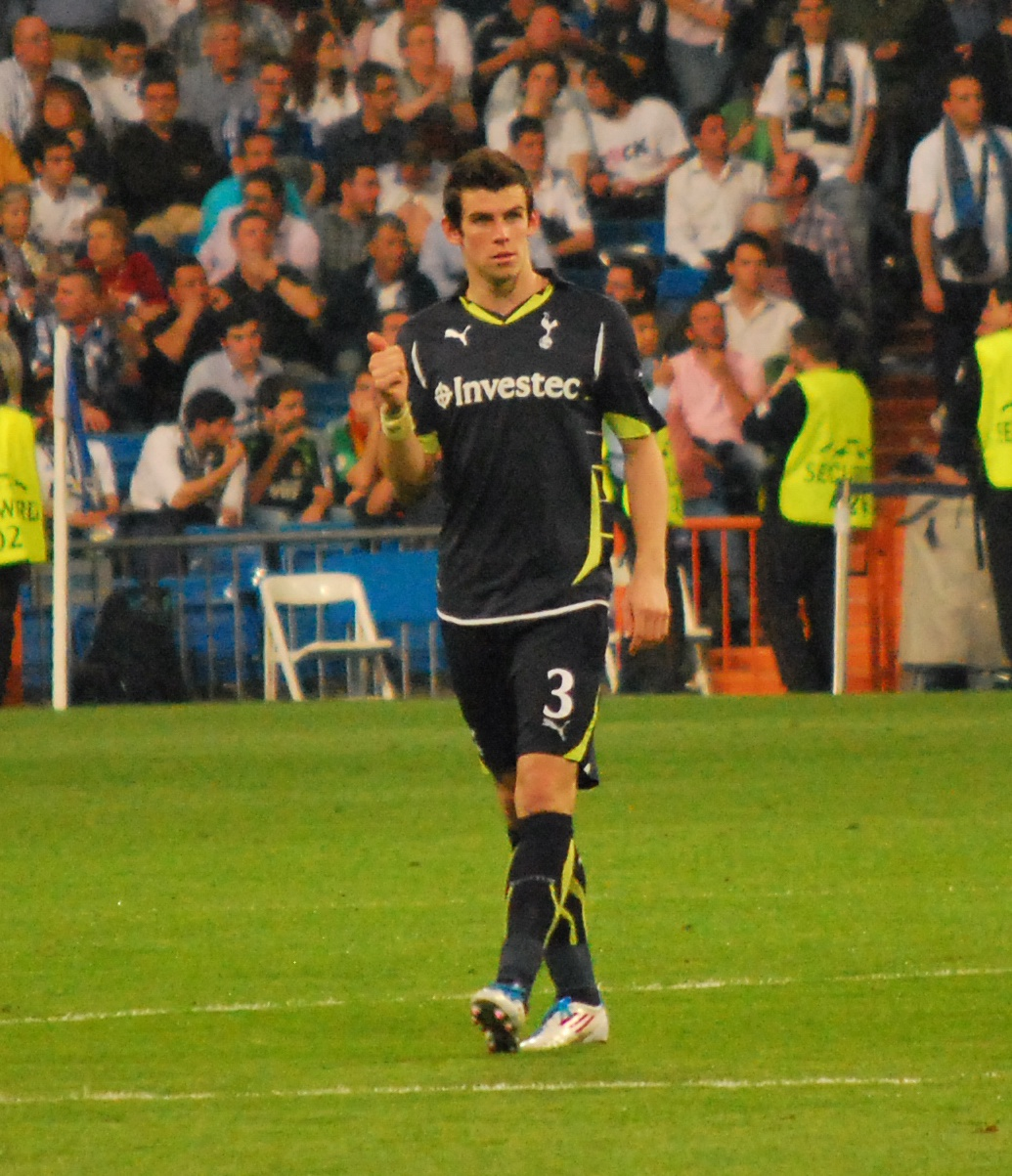 Gareth Bale and Tottenham against Real Madrid in the UEFA Champions League.